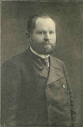 Nikolai Mankov, a member of the Third Russian State Duma, 1907-1912